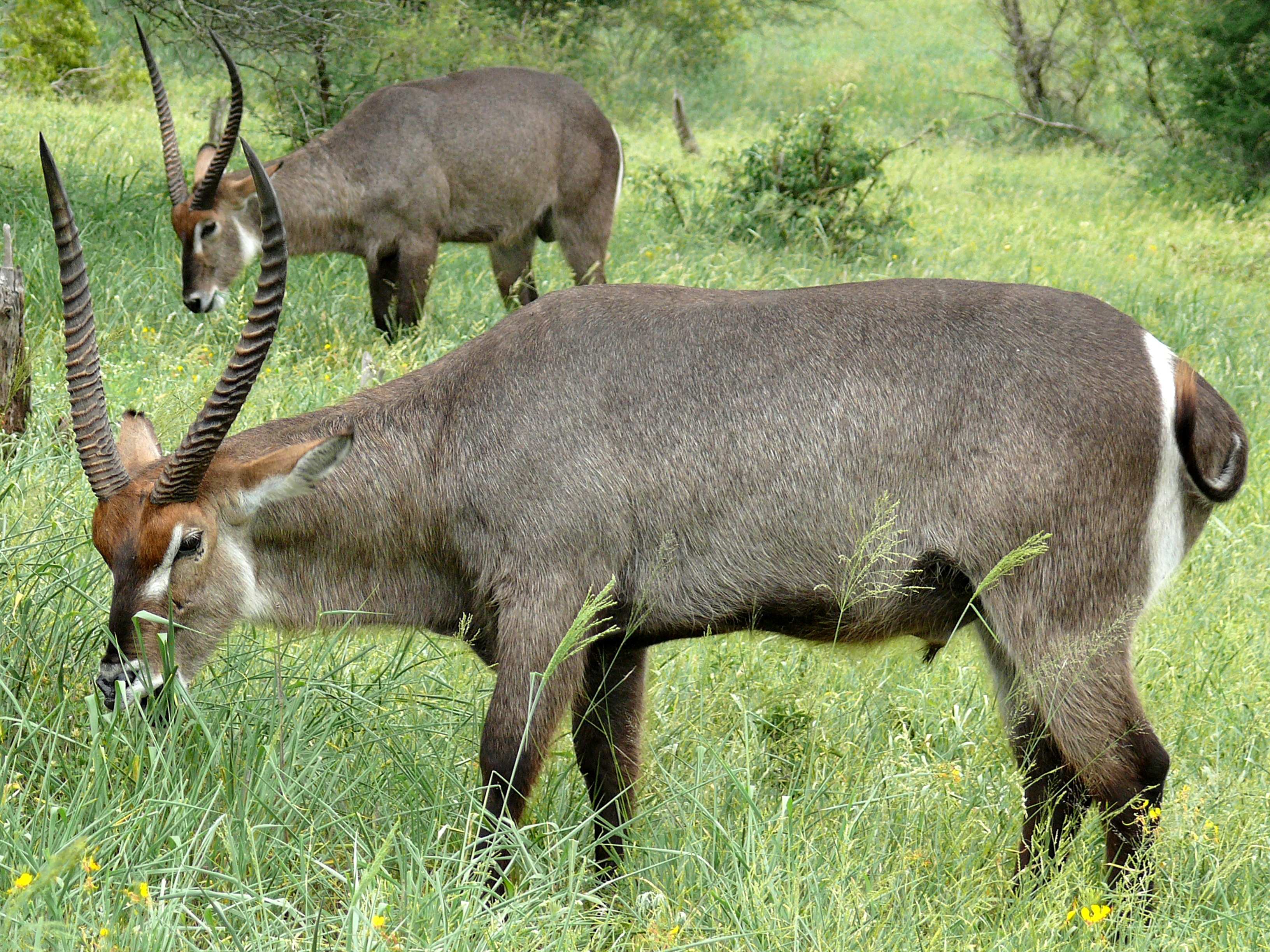 H1-3 North of Tshokwane, Kruger NP, SOUTH AFRICA